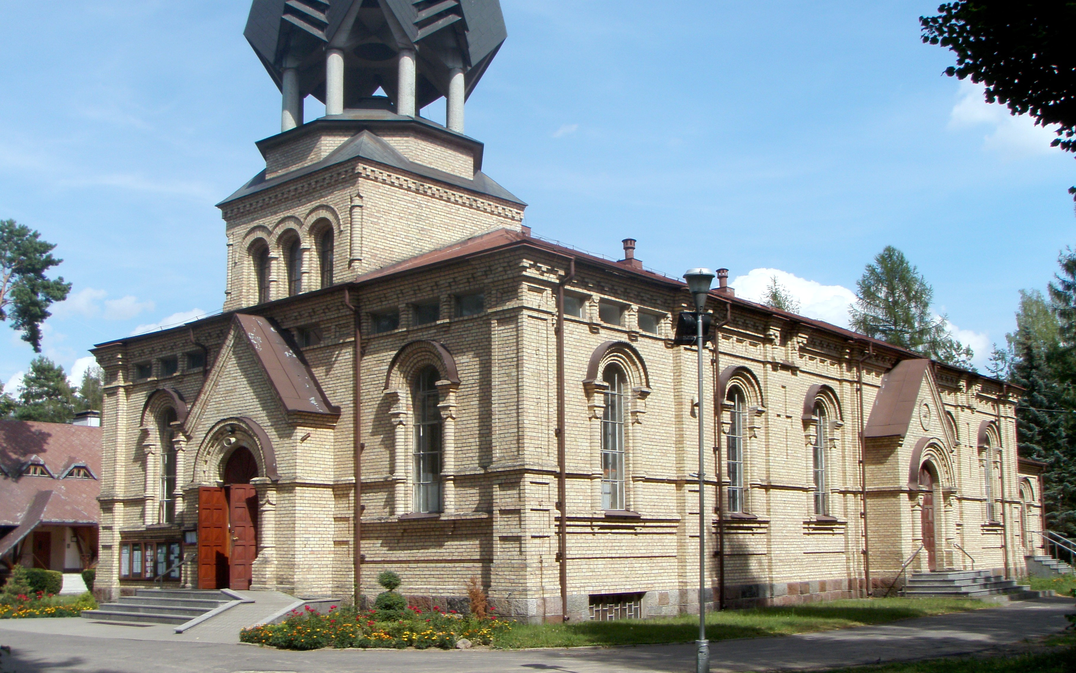 Our Lady of Częstochowa church in Augustów (Poland).